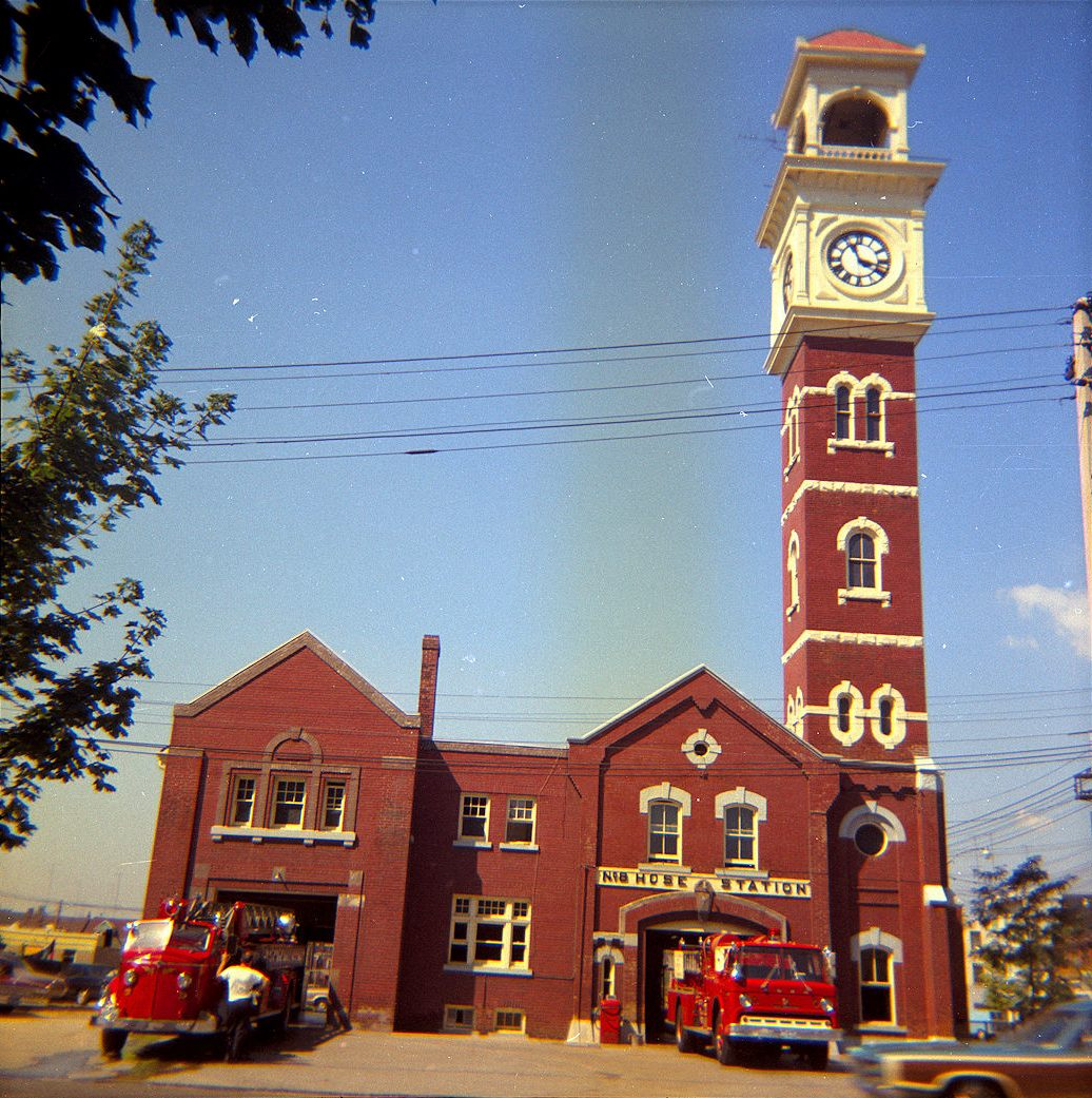 No 8 Firehall on College Street, one year before fire, showing old building with clock. Toronto, Ontario, Canada.